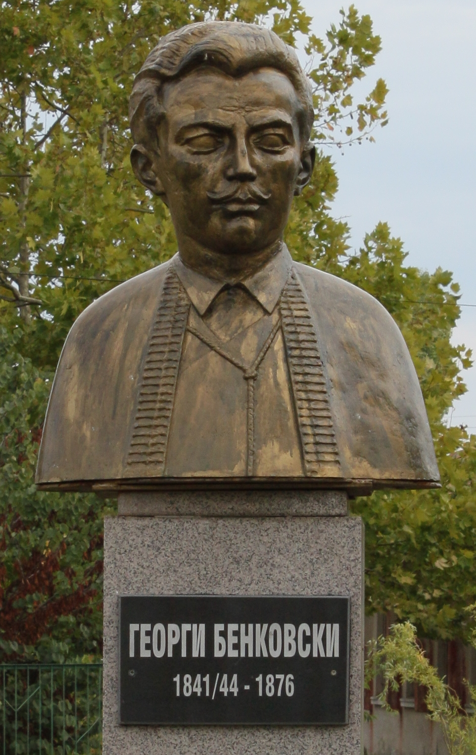 Uzundzhovo, Haskovo District, Bulgaria